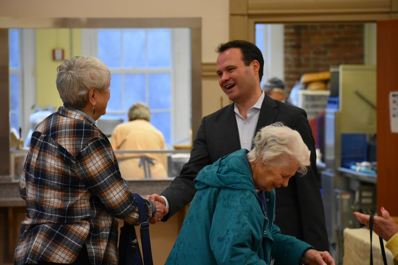 Sen. Eric Lesser visits the East Longmeadow Senior Center.